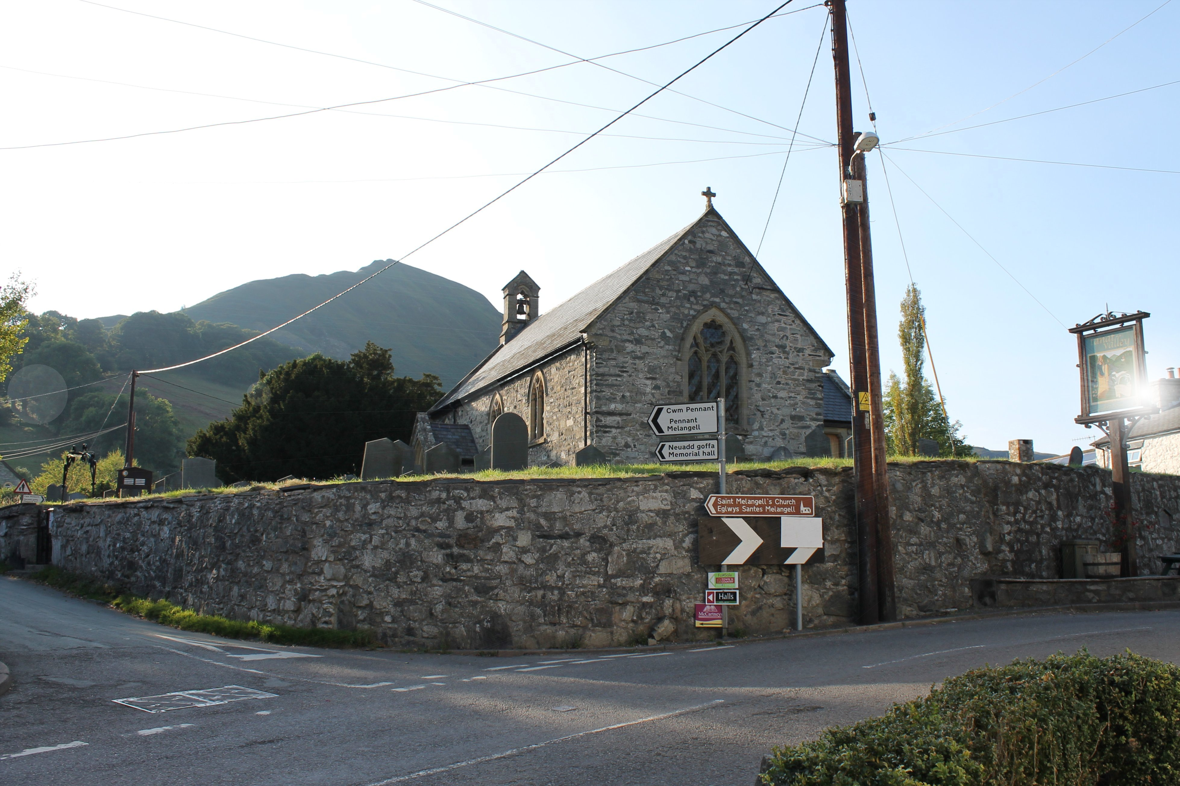 Church of St Cynog, Llangynog, Powys, SY10 0ES, is located at the centre of the village of Llangynog, in a raised churchyard enclosed by a tall wall. Dated 1791 in wall at north of churchyard.